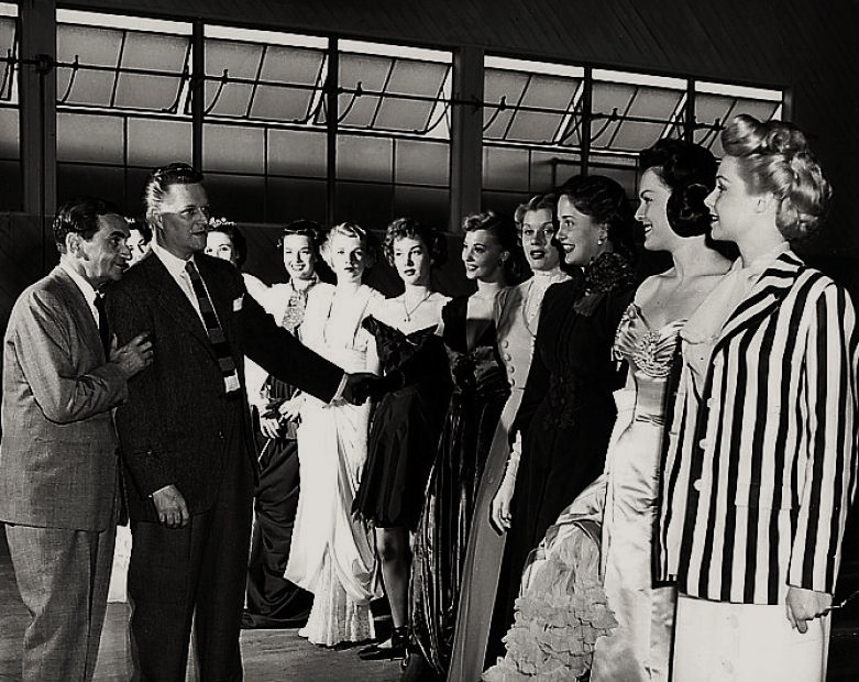 Irving Berlin (composer-songwriter, left) & Robert Alton (choreographer) check out models for Easter Parade - publicity still